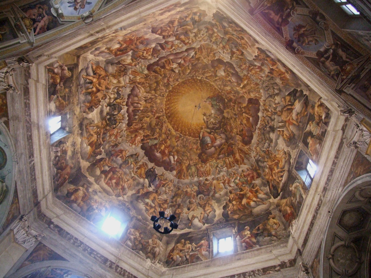 Cupola of church of Santa Maria del Quartiere, Parma, Italy